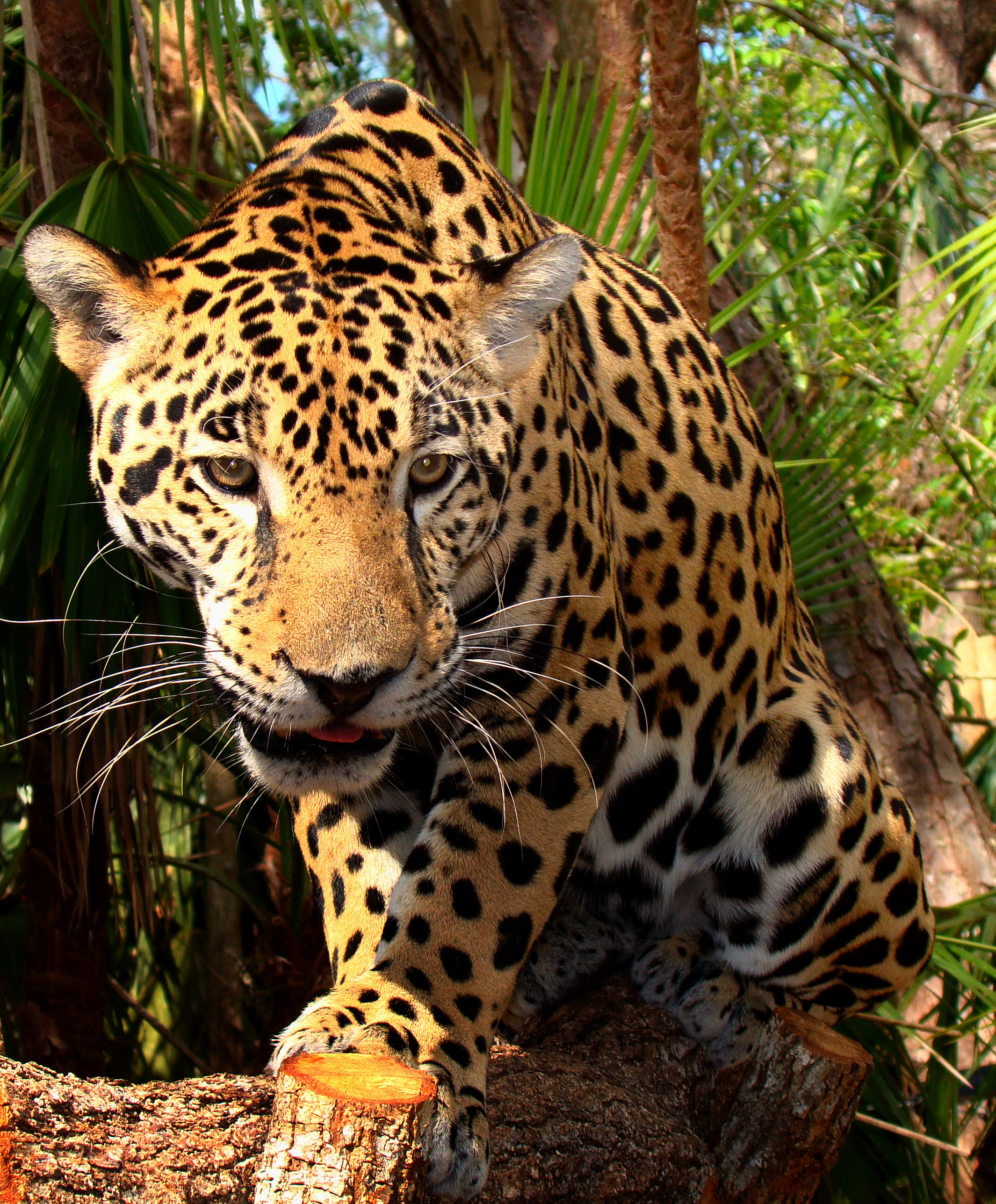 A three-year-old jaguar kept at the Belize Zoo, west of Belize City, Belize.